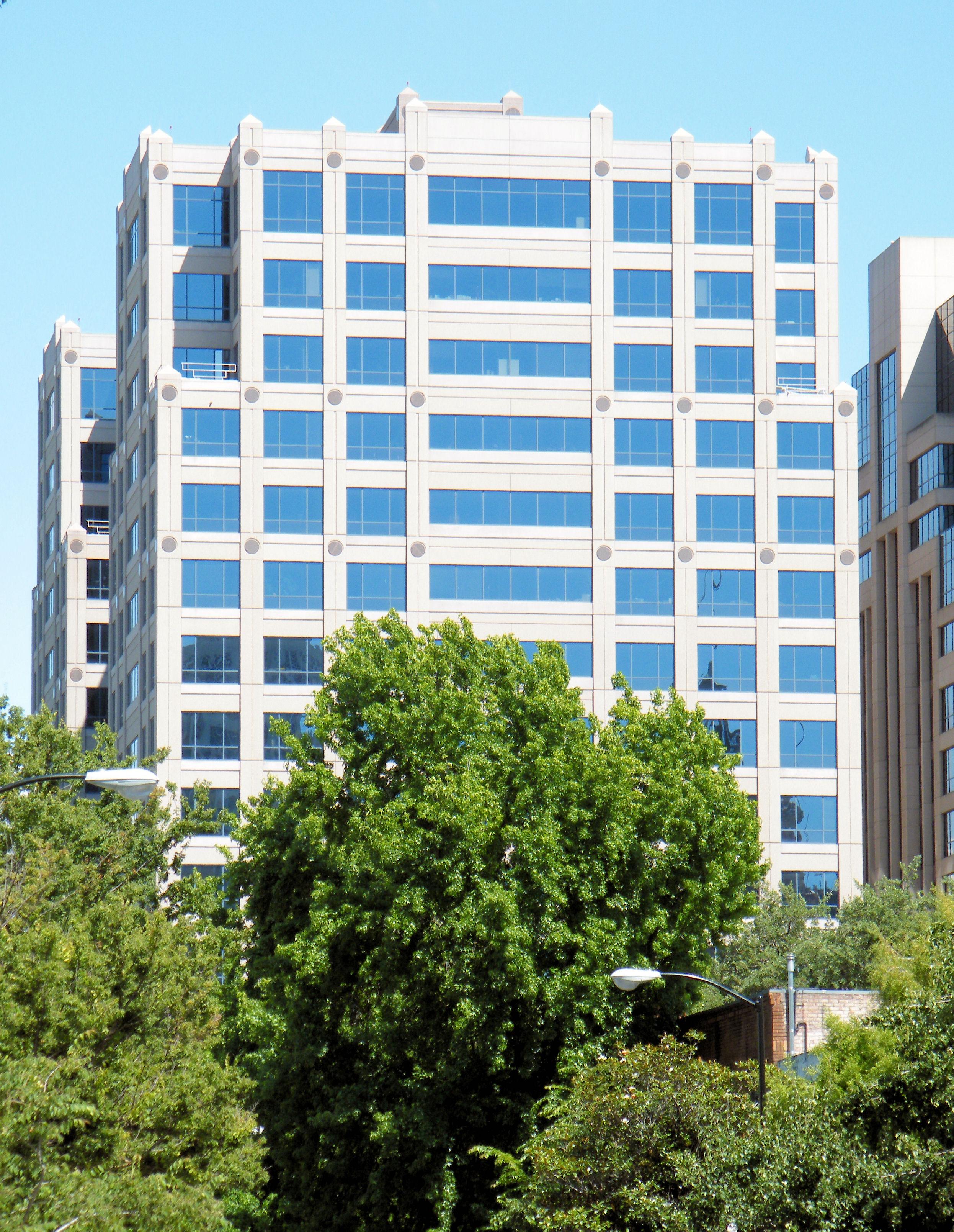 This office building in Sacramento, California is home to the main office of the California Attorney General. The building, located at 1300 I Street, was constructed in the mid-1990s. {1} Photographed by user Coolcaesar on June 13, 2009.